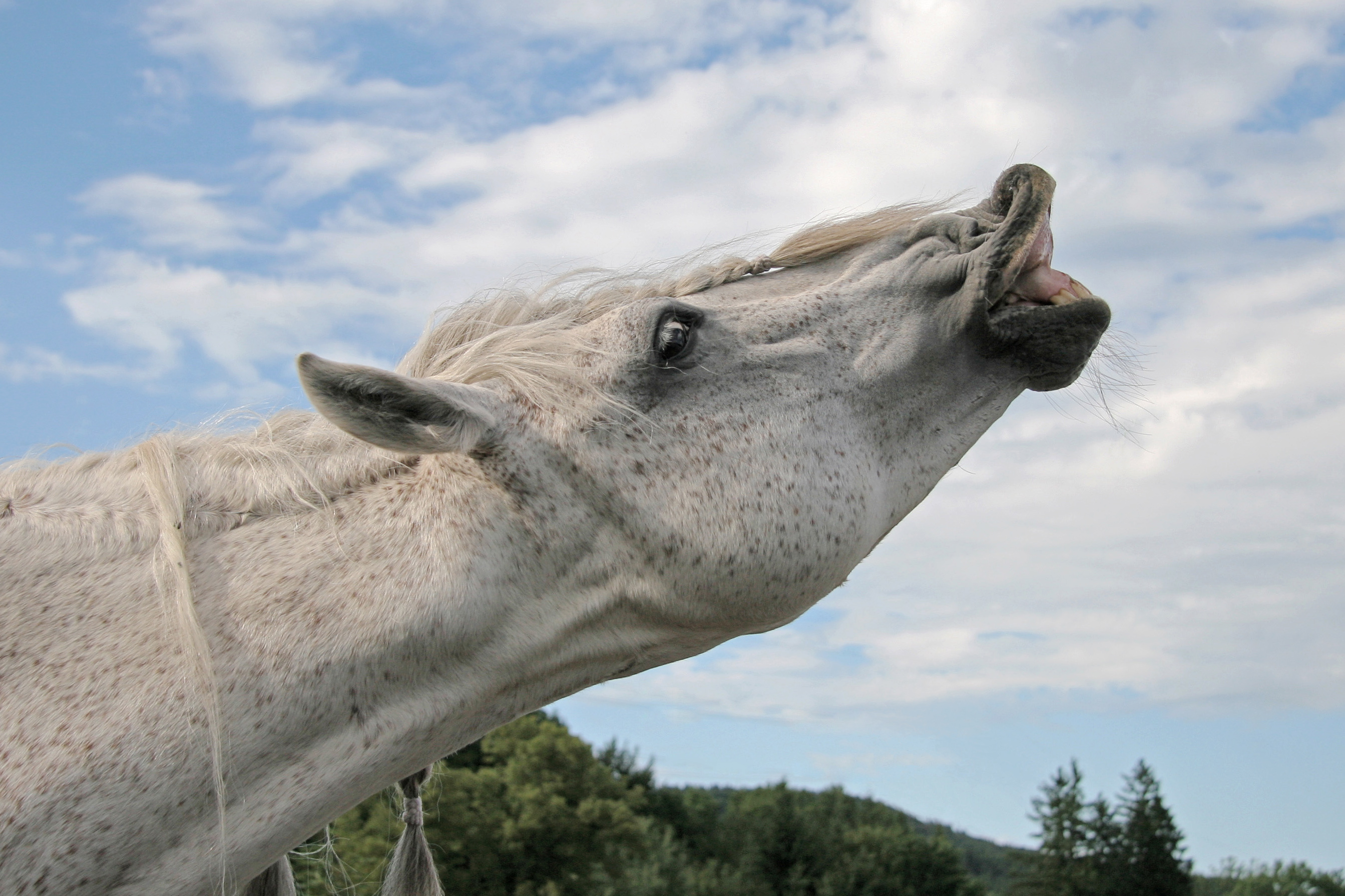 Flehmen response shown by an Andalusian stallion